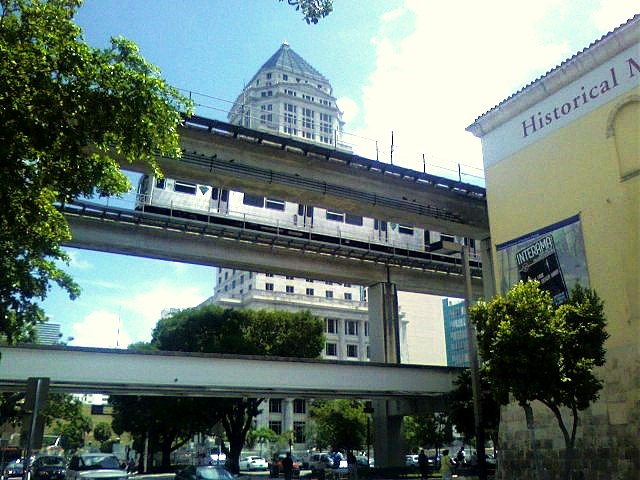 Government Center with the Dade County Courthouse in the background and the Historical Museum of Southern Florida in the foreground on the right